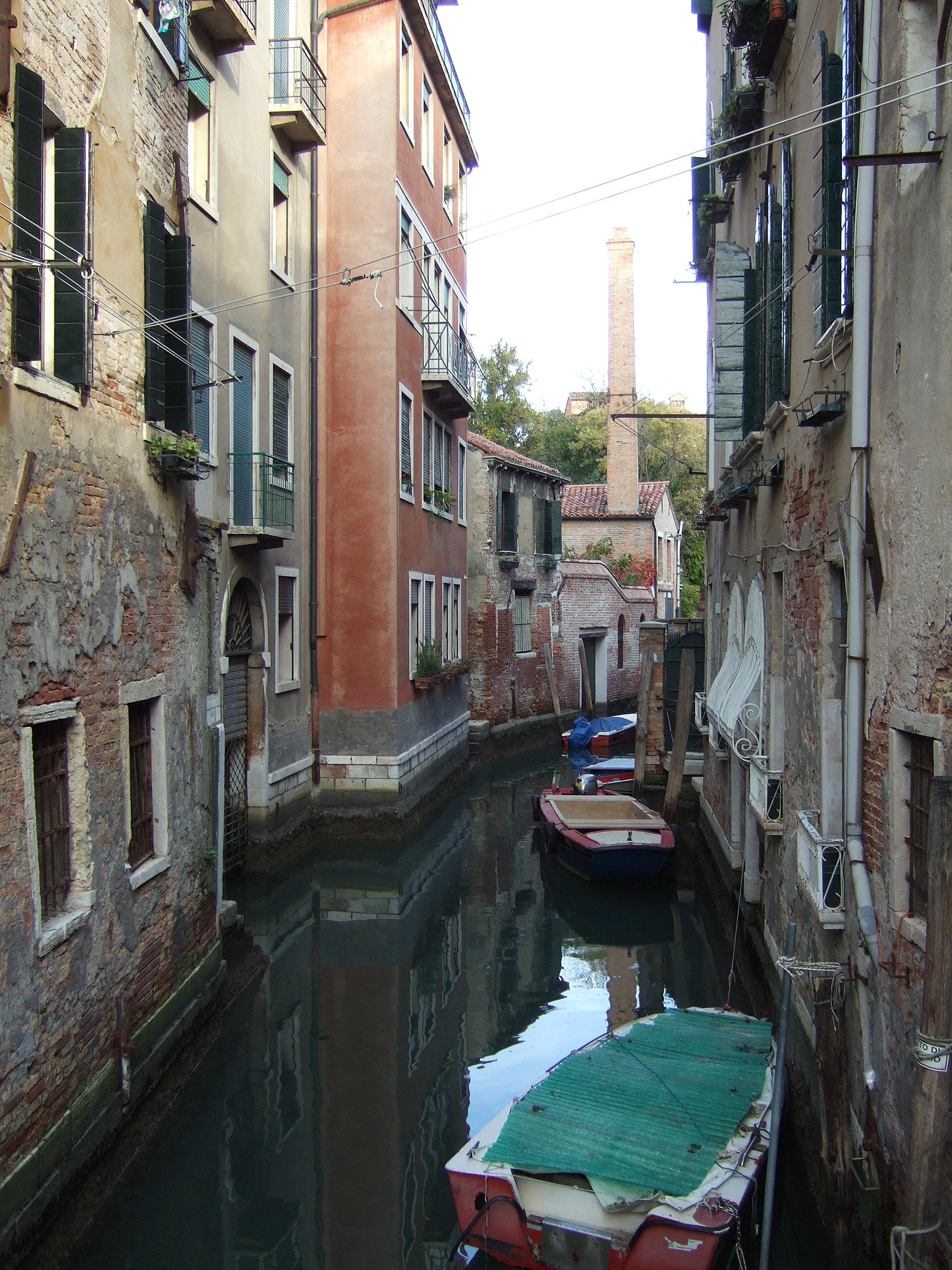 RIO DE LA TOLETTA (Venice)